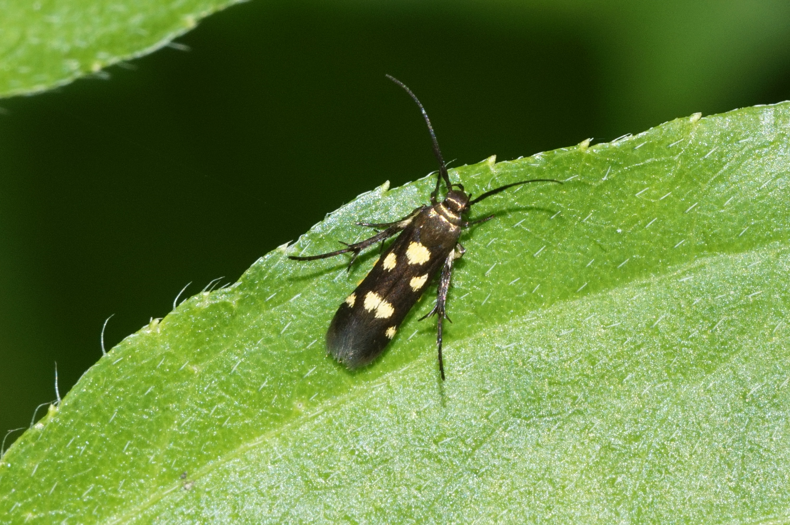 Insect